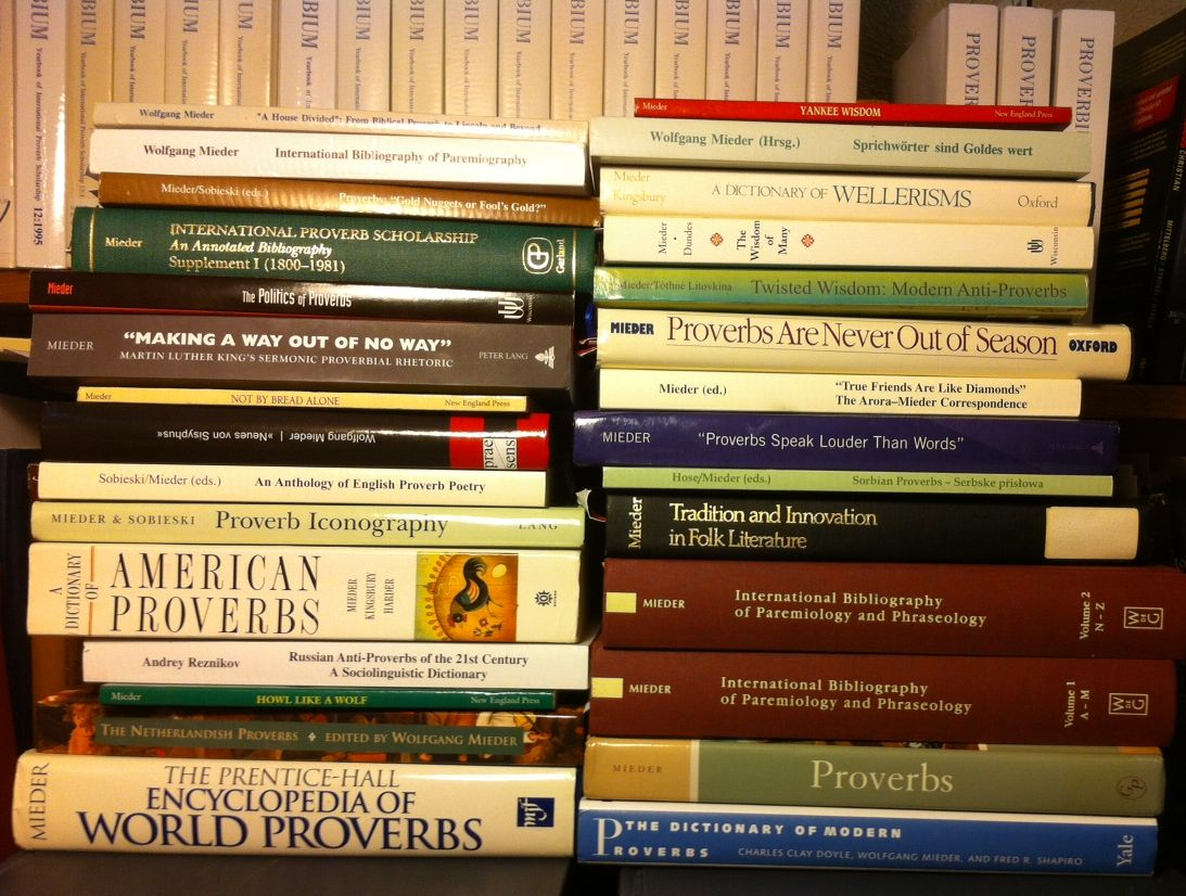 A sampling of books (co)authored and (co)edited by Wolfgang Mieder